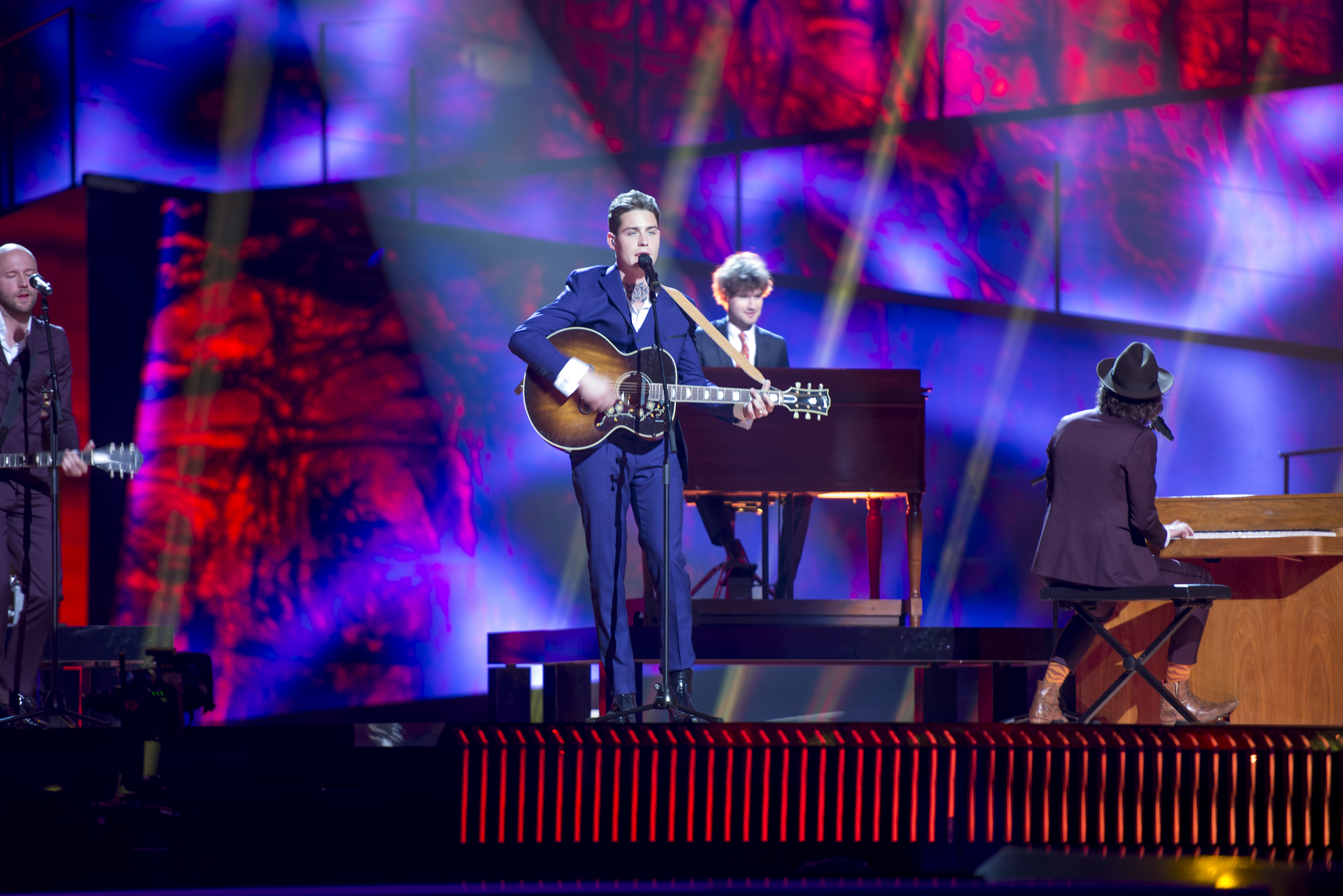 Douwe Bob representing Netherlands with the song "Slow Down" during a rehearsal before the first semi final of the Eurovision Song Contest 2016 in Stockholm. (Help translate this text)